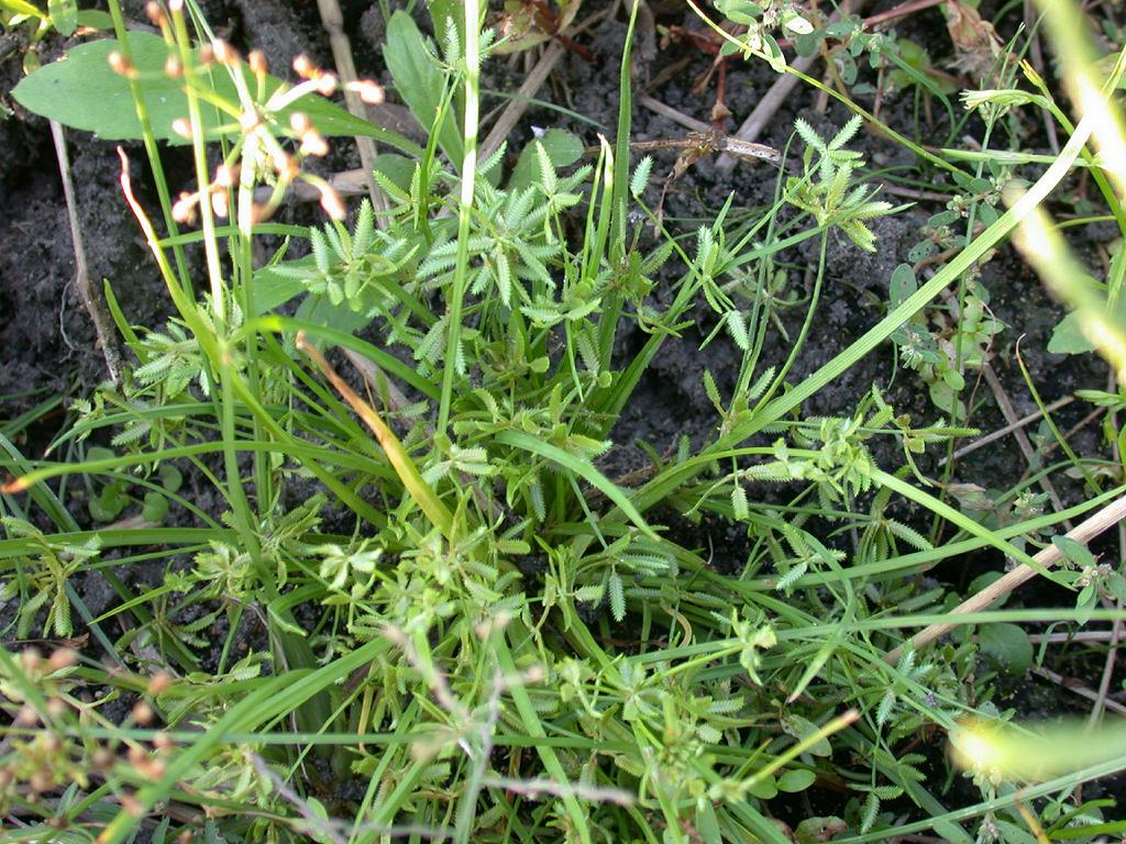 Cyperus flaccidus(Cyperaceae) Japanese name:hinagayaturi Date;2004,10,07;Sirahama town, Wakayama prefecture, Japan Author;Keisotyo